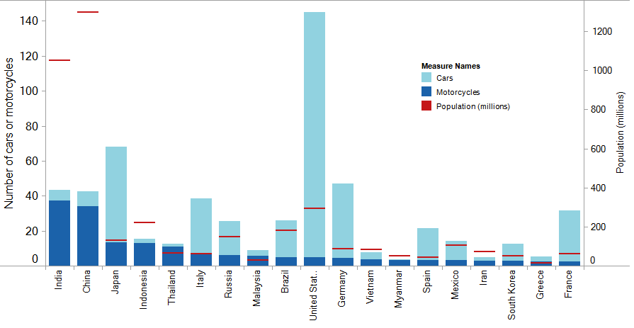 Bar graph of total world population where there are more motorcycles than cars vs where there are more cars than motorcycles. Source data . URL Graph at Made with Tableau Public.